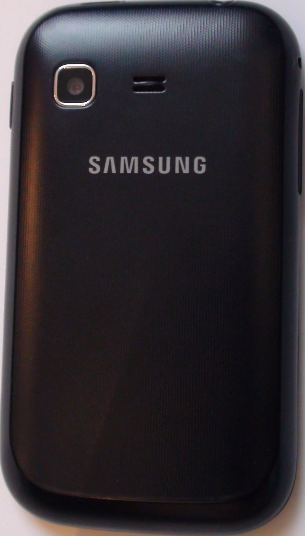 A photo showing the backside cover of the Galaxy Pocked (GT-S5300)